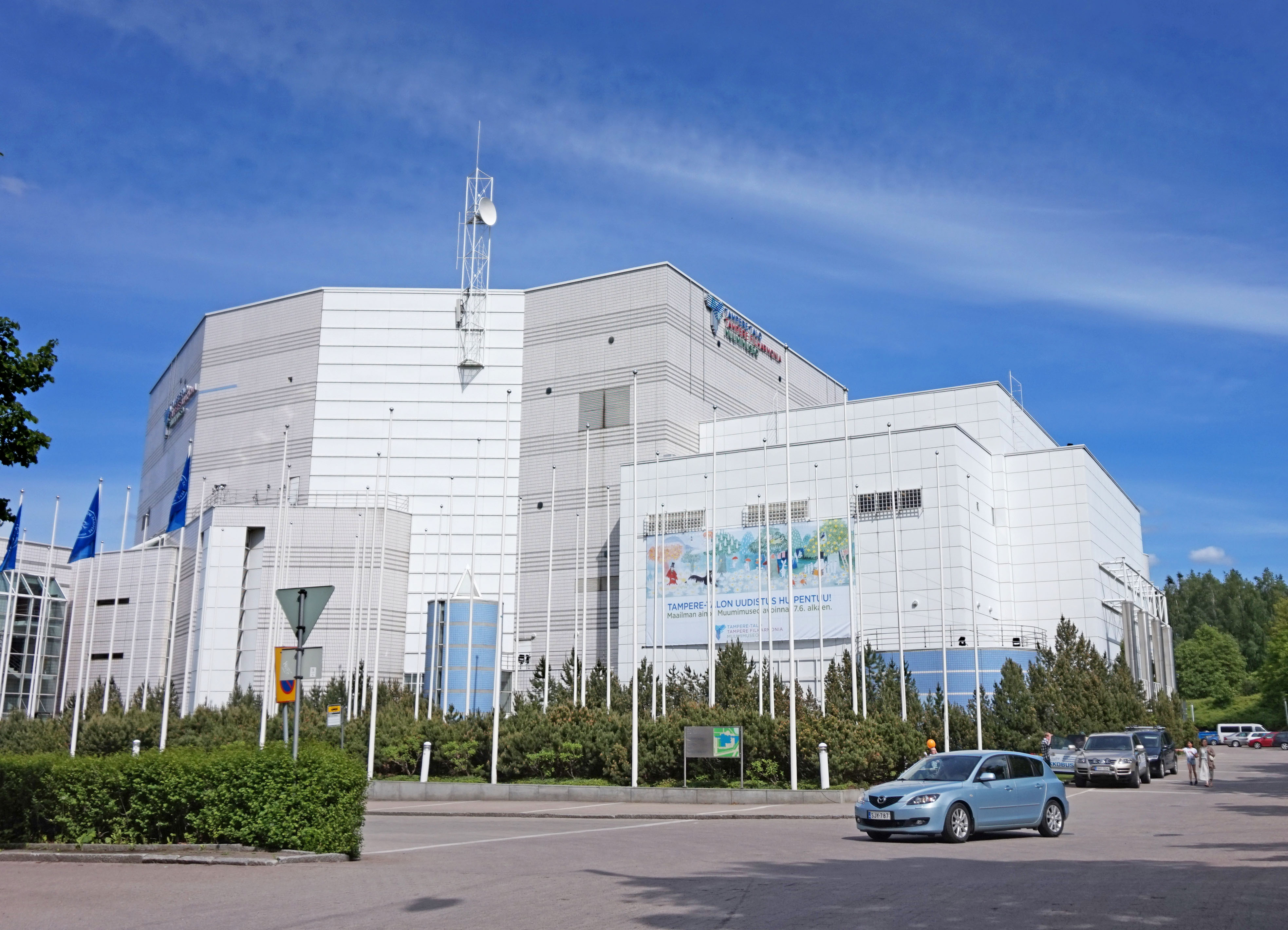 Tampoeretalo in Tampere, Finland